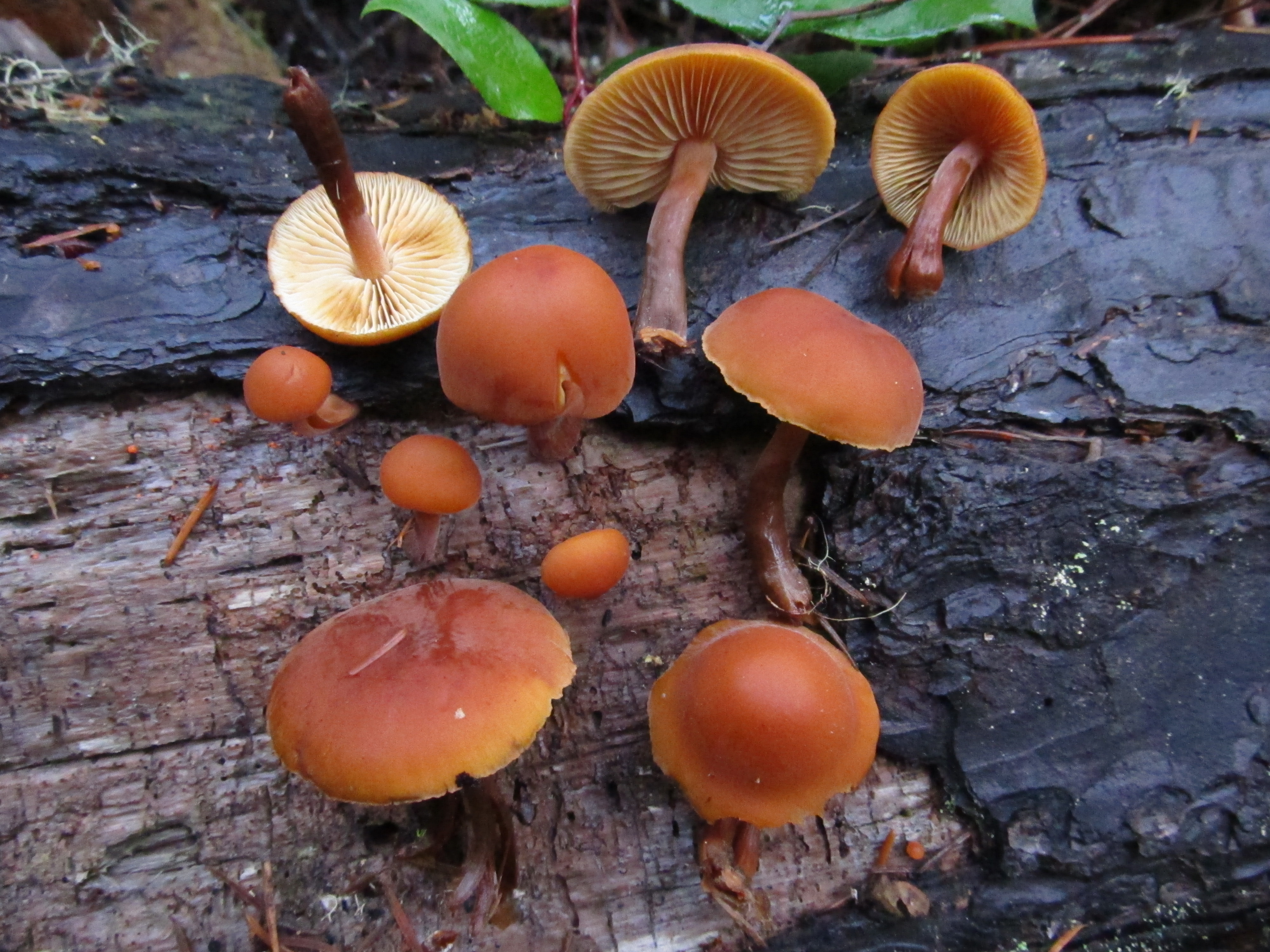 Gymnopilus josserandii Antonín Image location: Mendocino, California, USA Recognized by sight: found in Bishop pine forest ~1 mile inland on decaying conifer log For more information about this, see the observation page at Mushroom Observer.